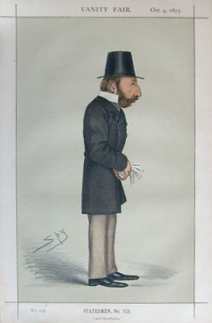 Caricature of Lord Campbell and Stratheden. Caption read "and Stratheden".